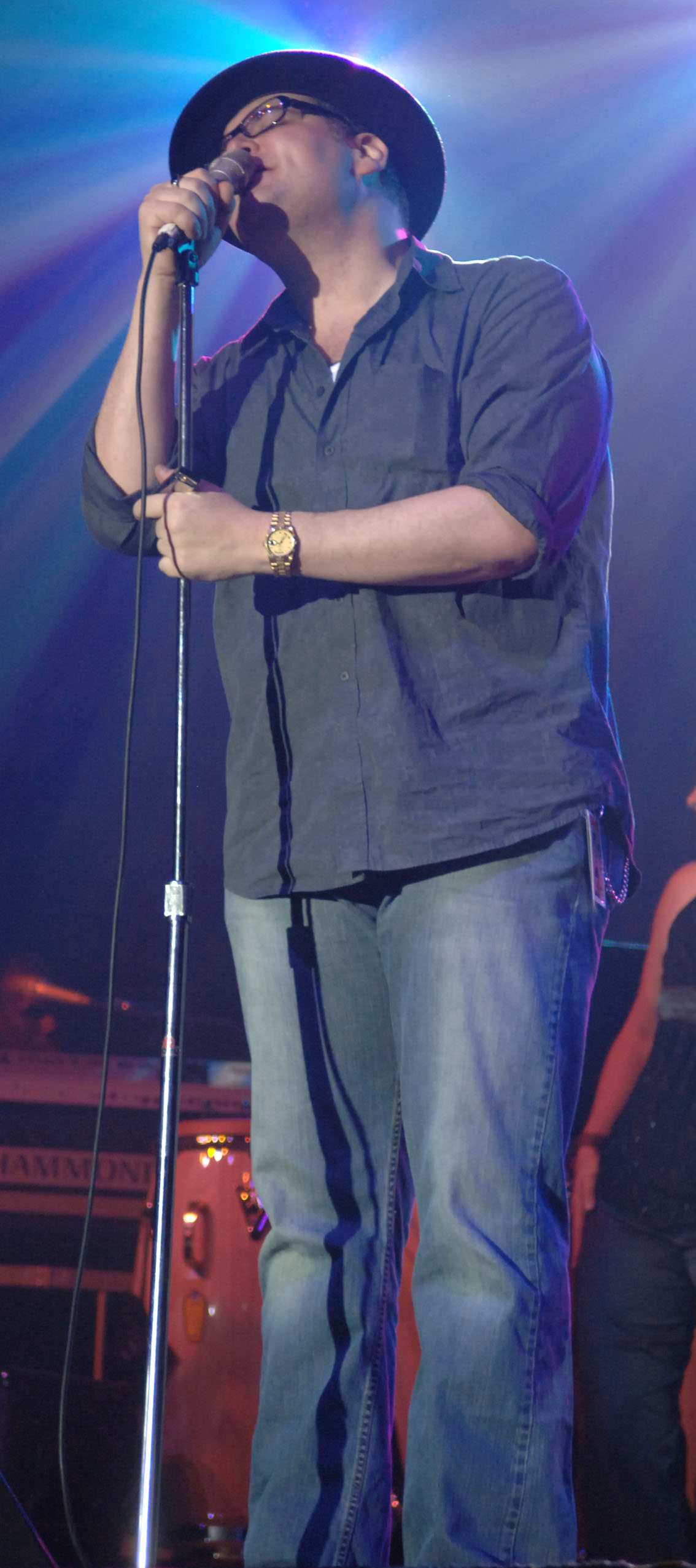 John Popper of the platinum-selling group, Blues Traveler, sings to more than 500 Airmen during the Operation Season's Greetings concert at Incirlik Air Base, Turkey.